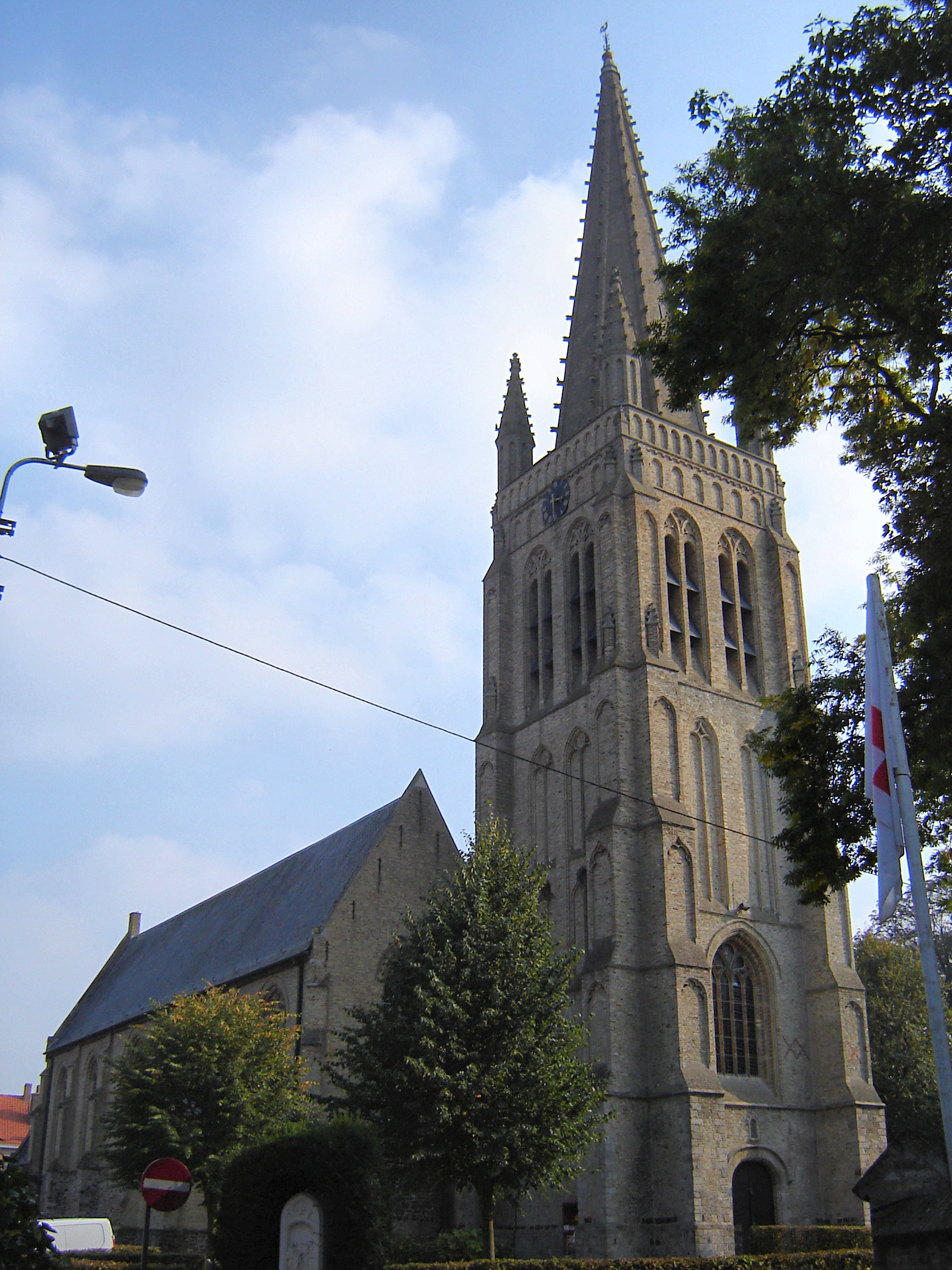 Church of Saint Peter and Paul in Elverdinge. Elverdinge, Ieper, West Flanders, Belgium